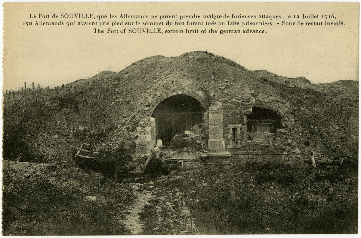 Accession Number: 1969:0321:0010 Maker: Unidentified Photographer Title: The Fort of SOUVILLE, extreme limit of the german advance. Date: ca. 1920 Medium: collotype print Dimensions: Overall: 8.9 x 13.6 cm George Eastman House Collection General – information about the George Eastman House Photography Collection is available at For information on obtaining reproductions go to